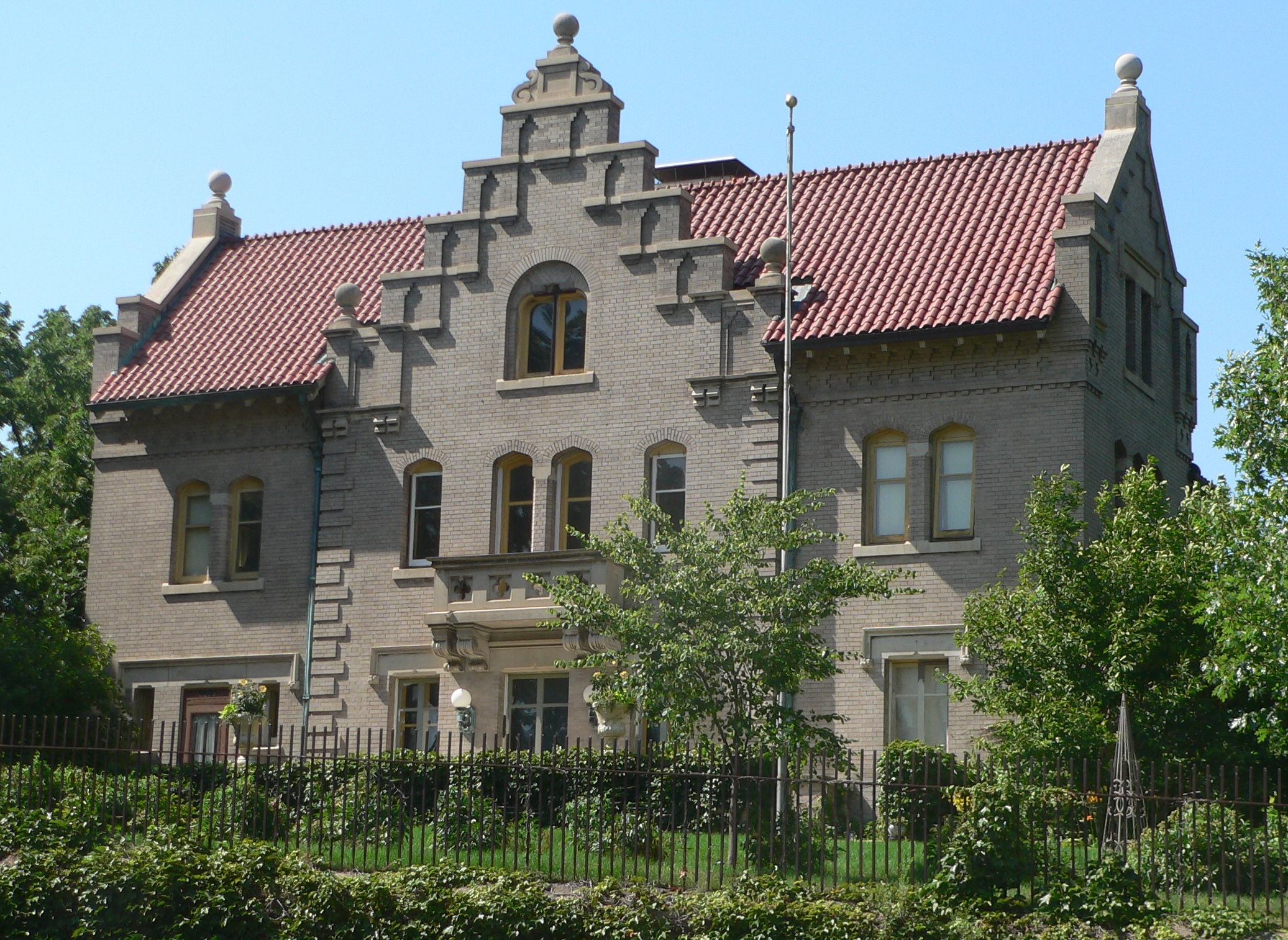 Mary Rogers Kimball house, located at 2236 St. Mary's Avenue in Omaha, Nebraska; seen from the southeast.